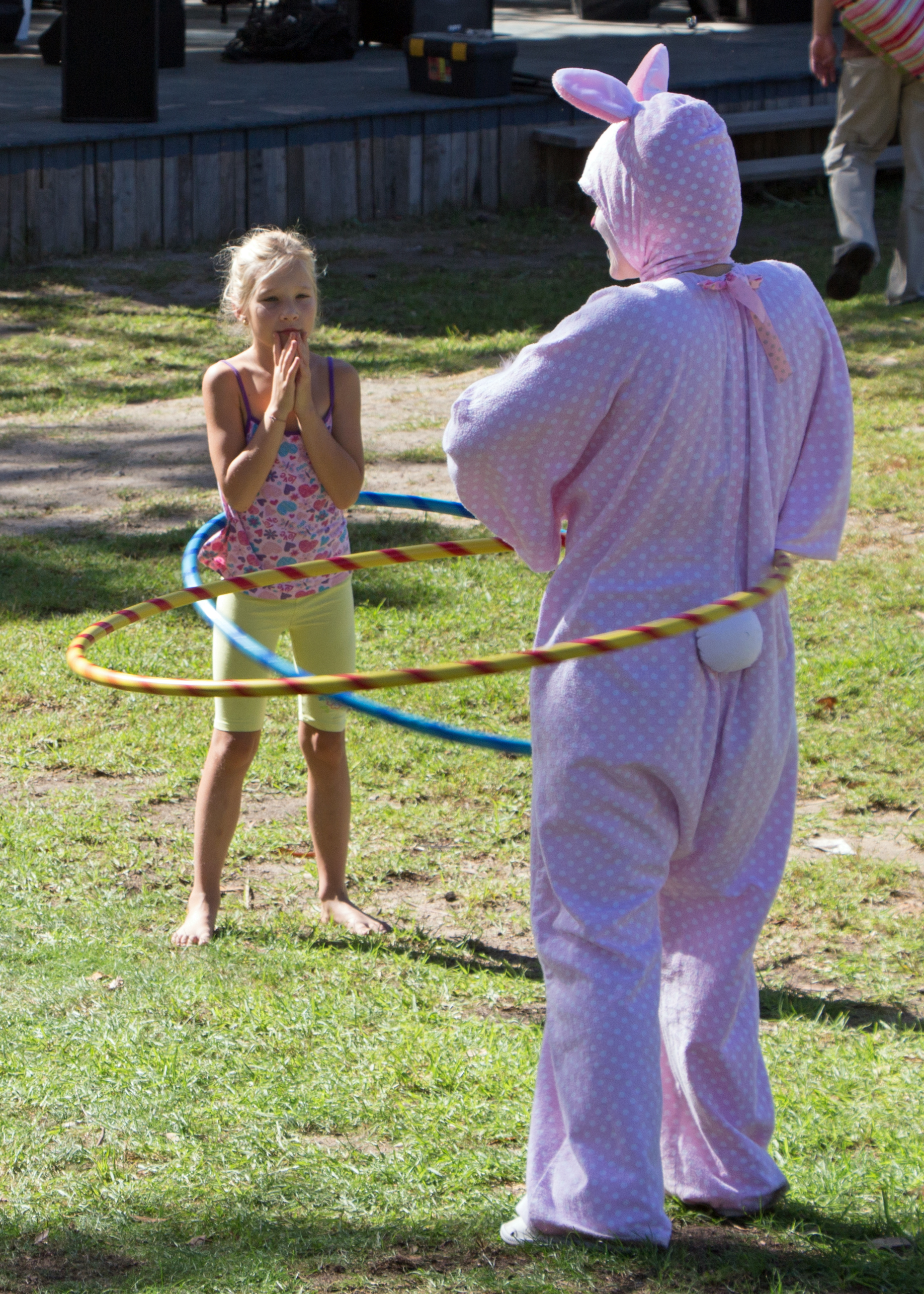 Easter Bunny at Root44 Market, Stellenbosch, South Africa